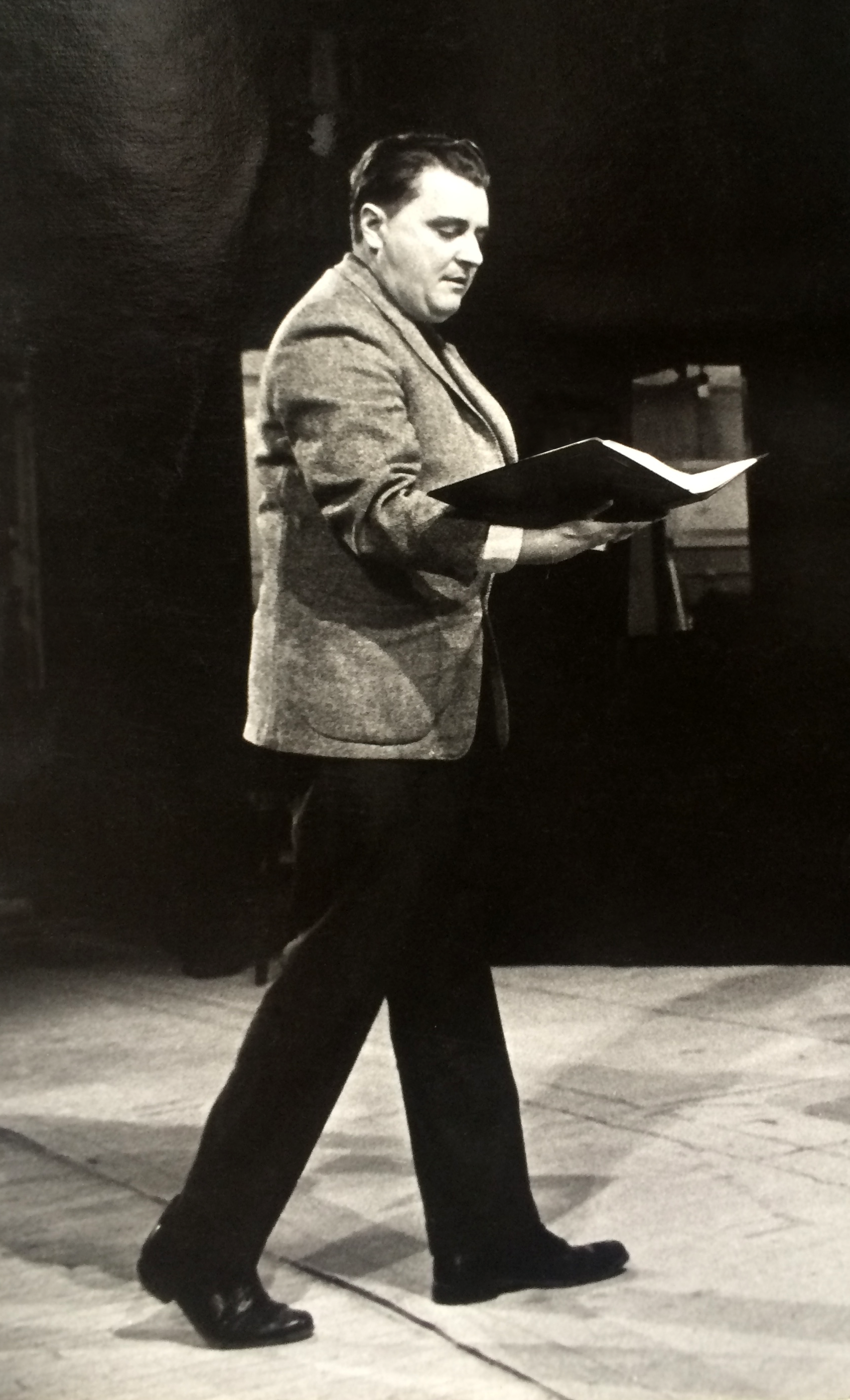 Photo of John McCabe, writer